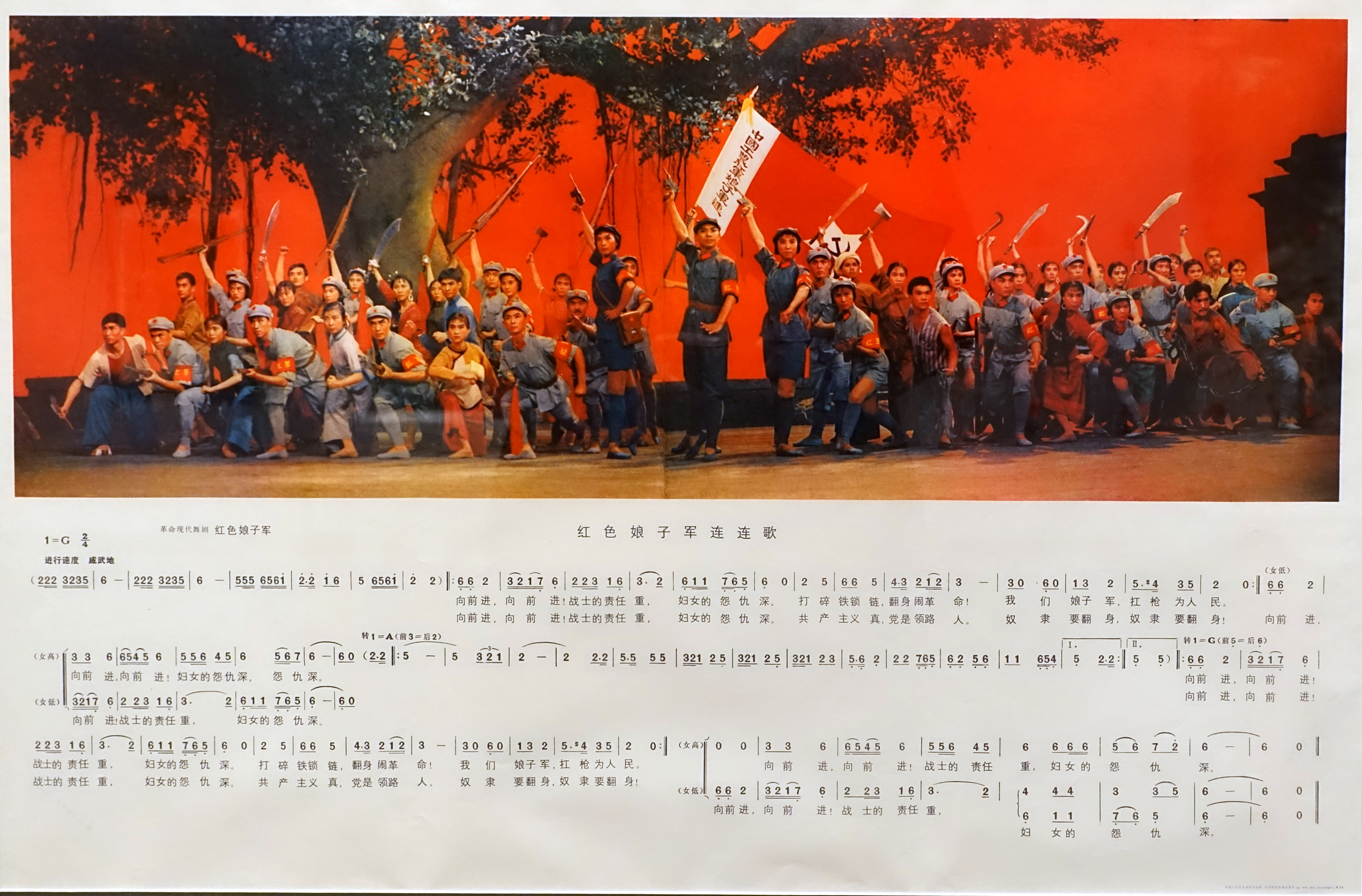 Exhibit in the Jordan Schnitzer Museum of Art, University of Oregon - Eugene, Oregon, USA.